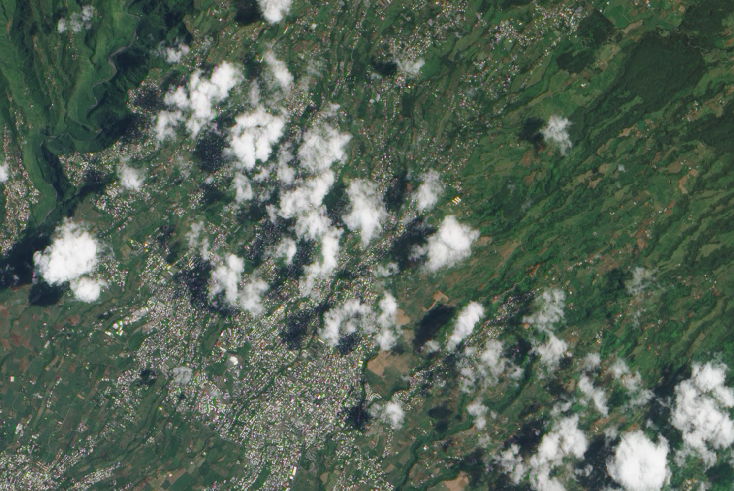 Satelitte view of the city of Le Tampon on Réunion island